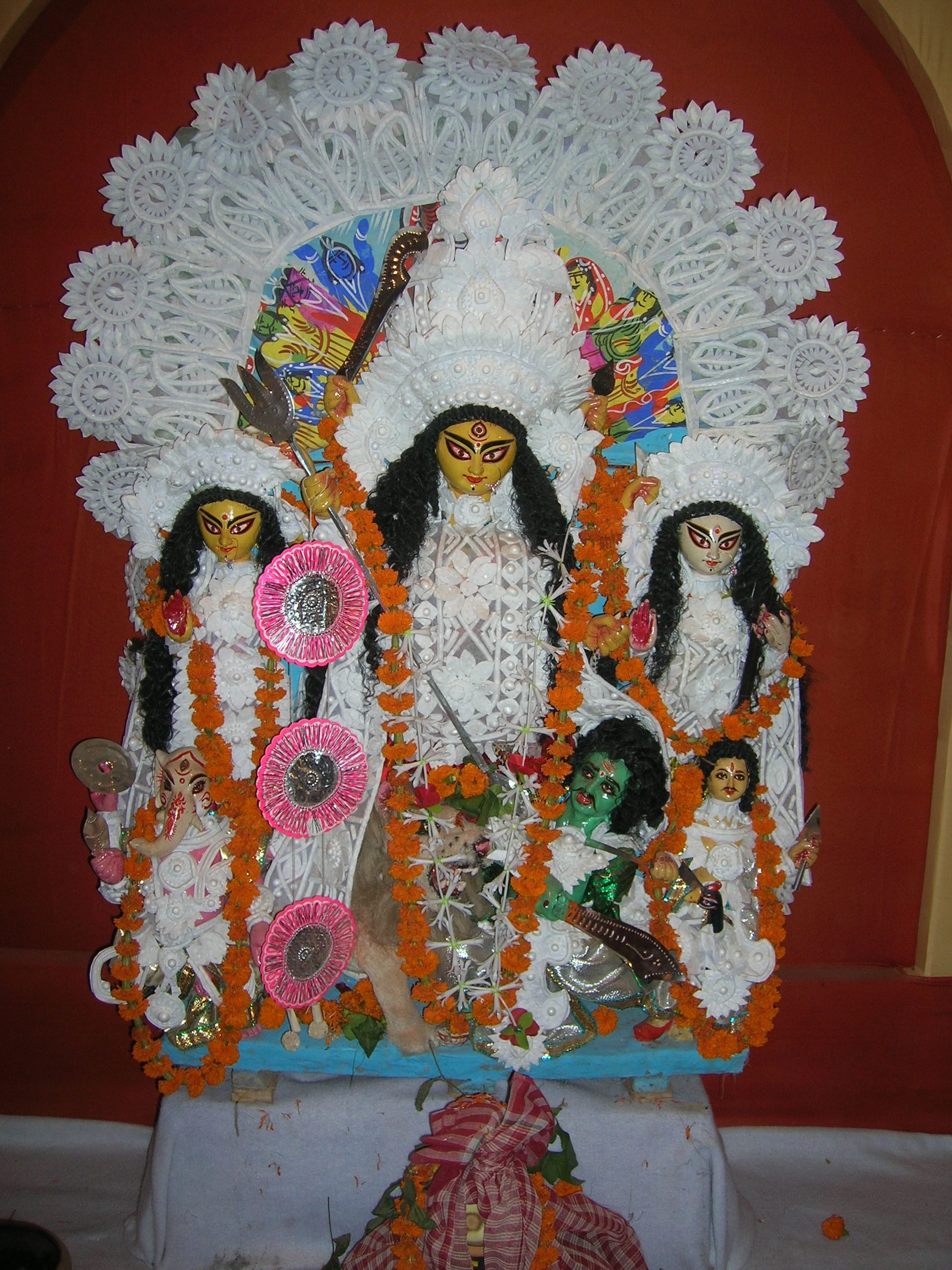 Durga idol at Barisha Nabin Sangha, Kolkata.